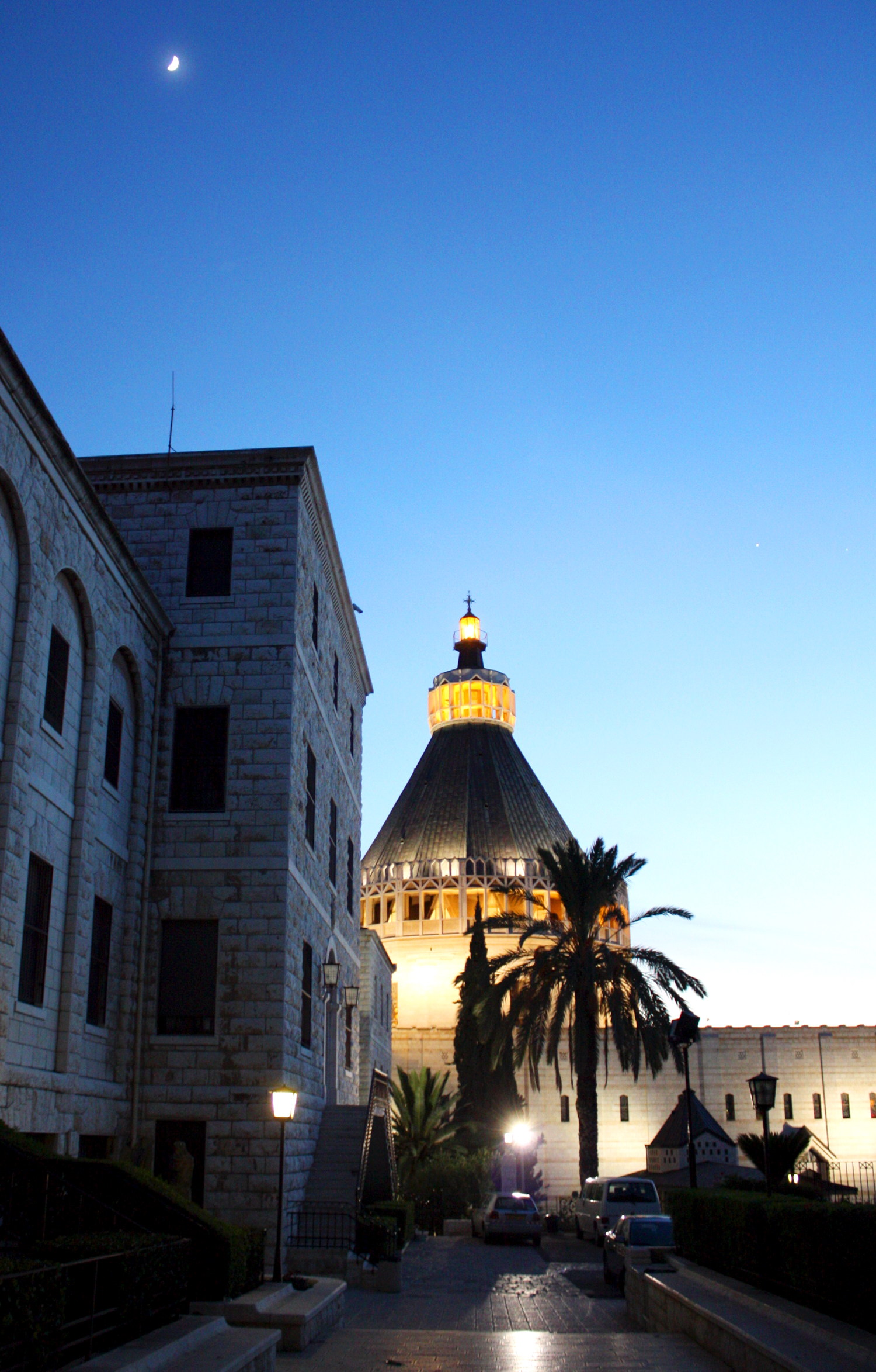 Church of the Annunciation / Basilica of the Annunciation - Nazareth, Israel